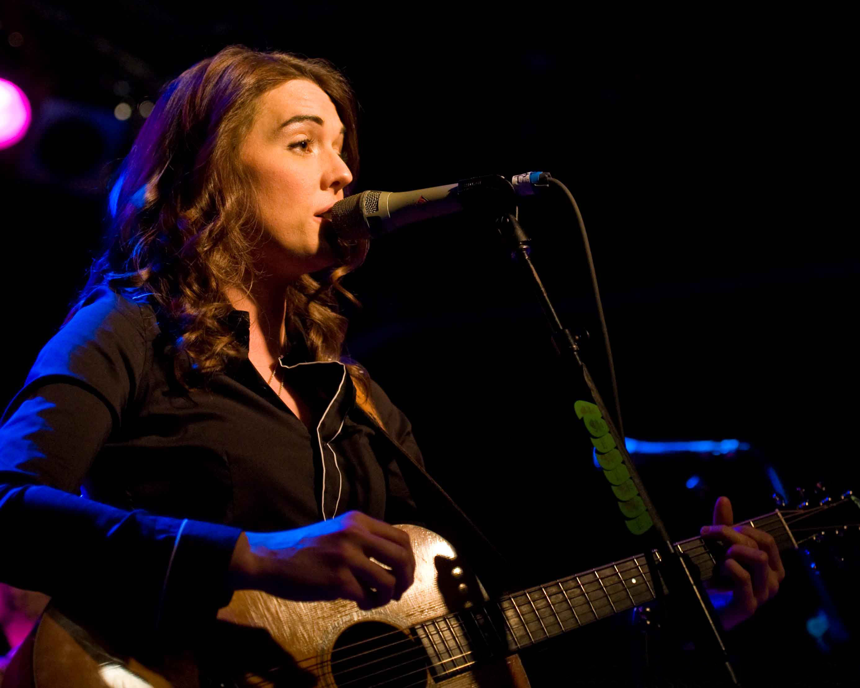 Brandi Carlile @ Neumos, Seattle 11-20-10